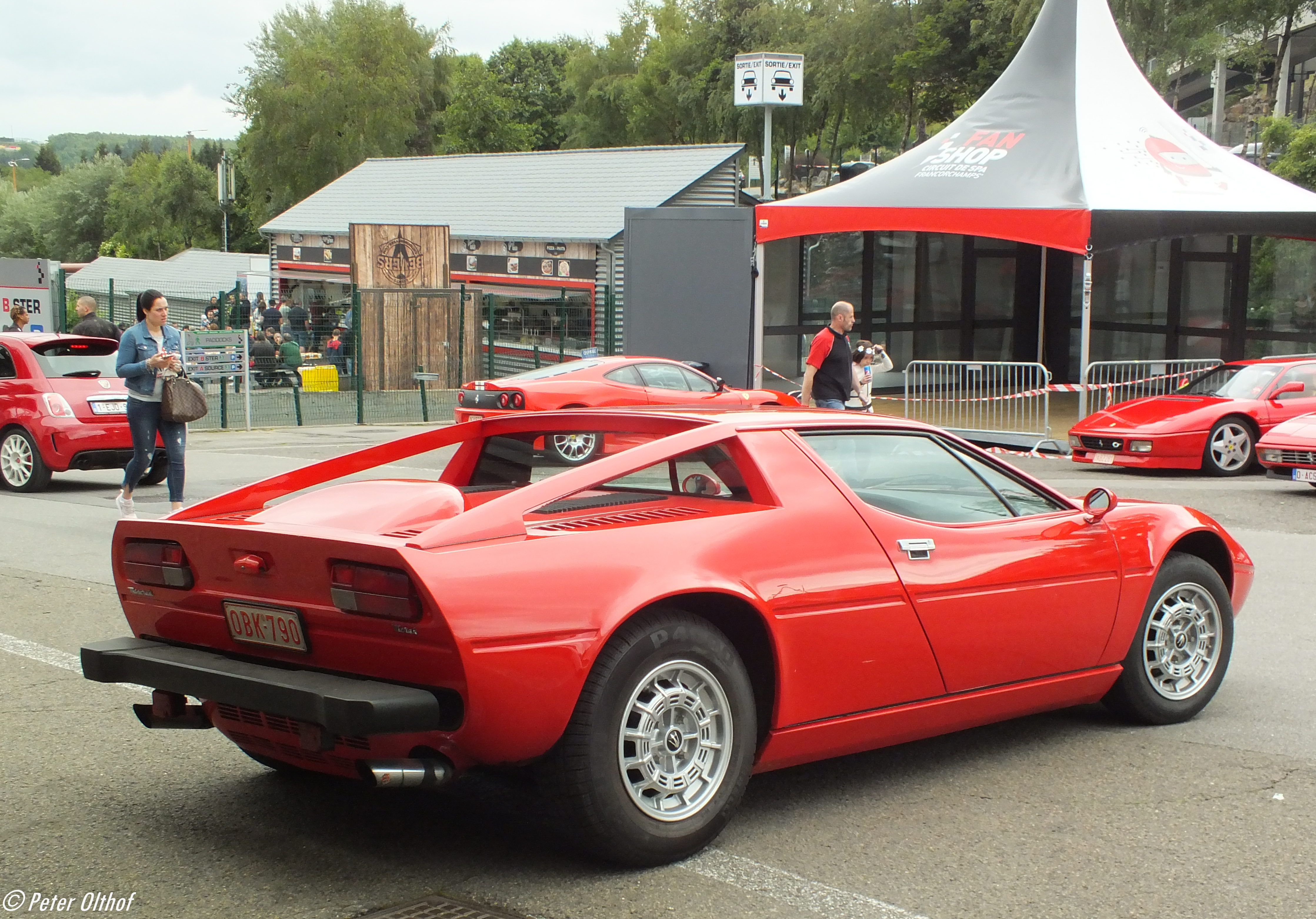 A Masertati Merak US-Spec during Spa-Italia